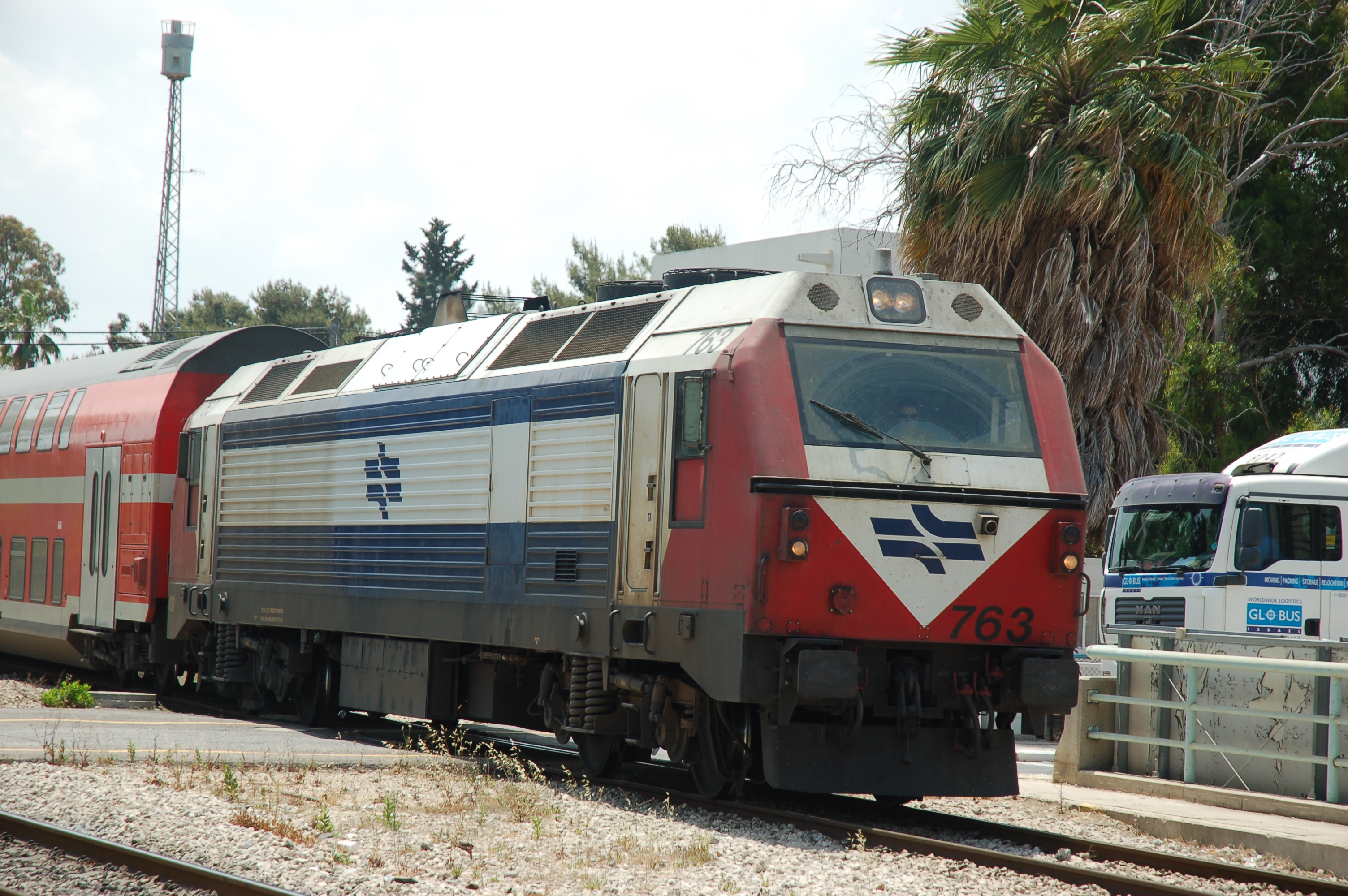 Israel Railways level crossing in Bat Galim, Haifa - next to almost abandoned Egged central bus terminal Haifa